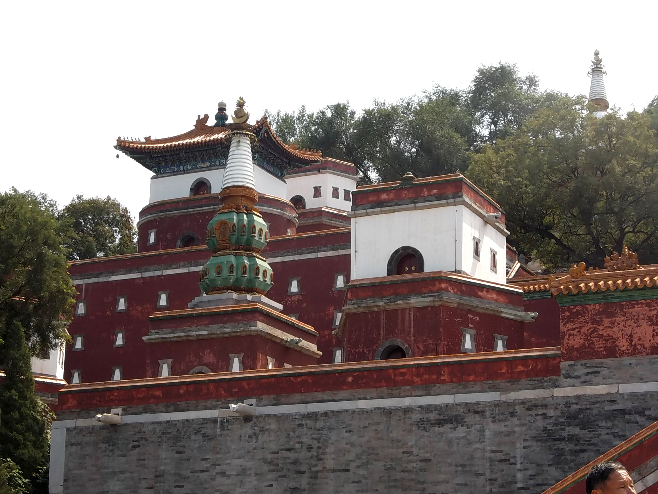 Sumeru Lingjing, Four Great Regions (Tibetan style temple), Summer Palace - Beijing, China, 27.8.2014